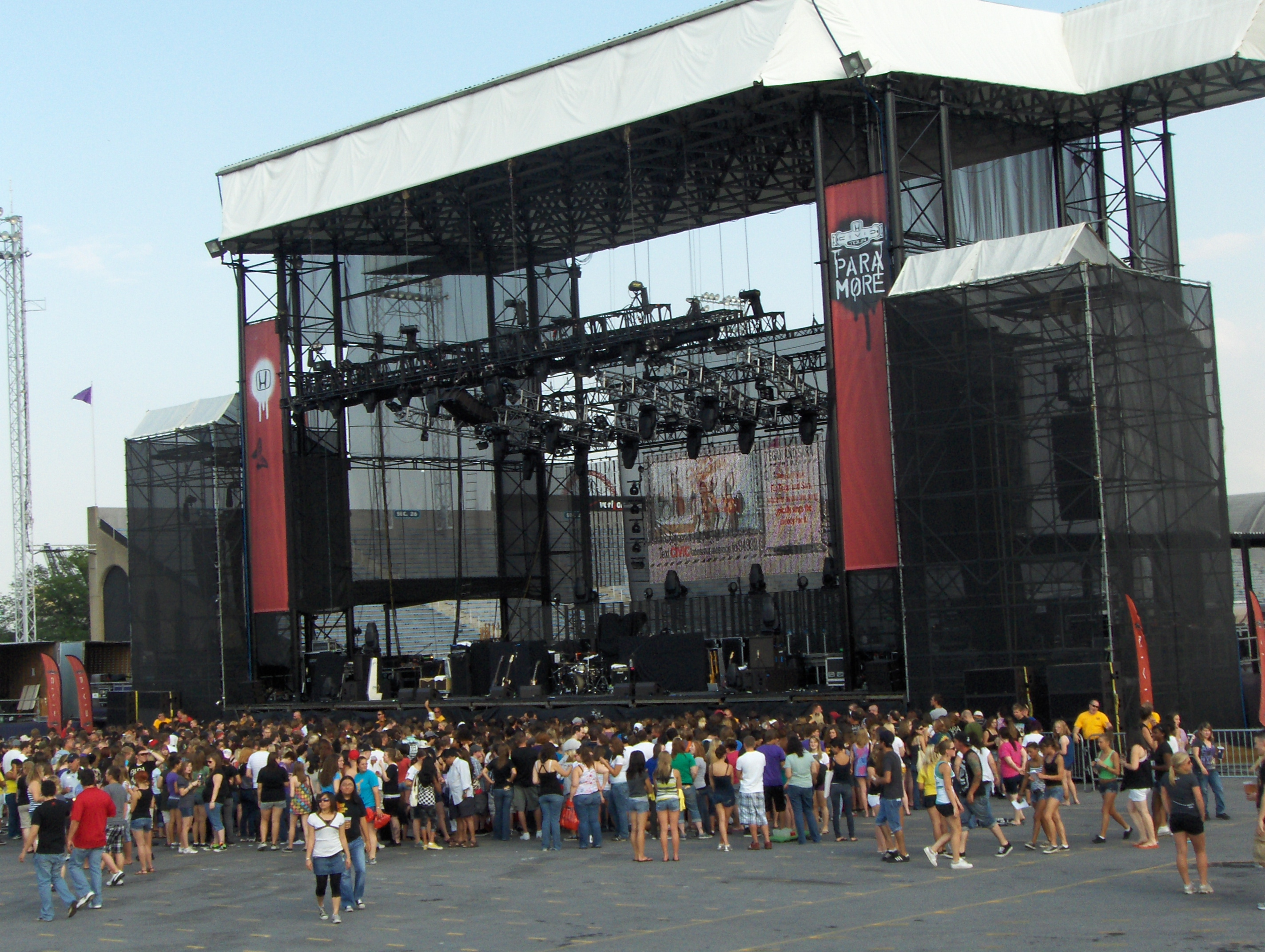 The Star Pavilion at Hersheypark before the Honda Civic Tour 2010 show, featuring Paramore, Tegan and Sara, New Found Glory, and Kadawatha. I took this photo myself.